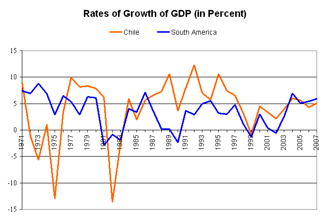 Data from [1] United Nations Statistics Division. Rates of Growth of GDP (in Percent) of Chile (orange) and South America (blue).